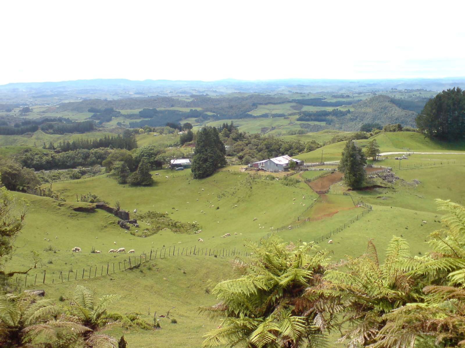 Farming country in the Waitomo District of New Zealand.